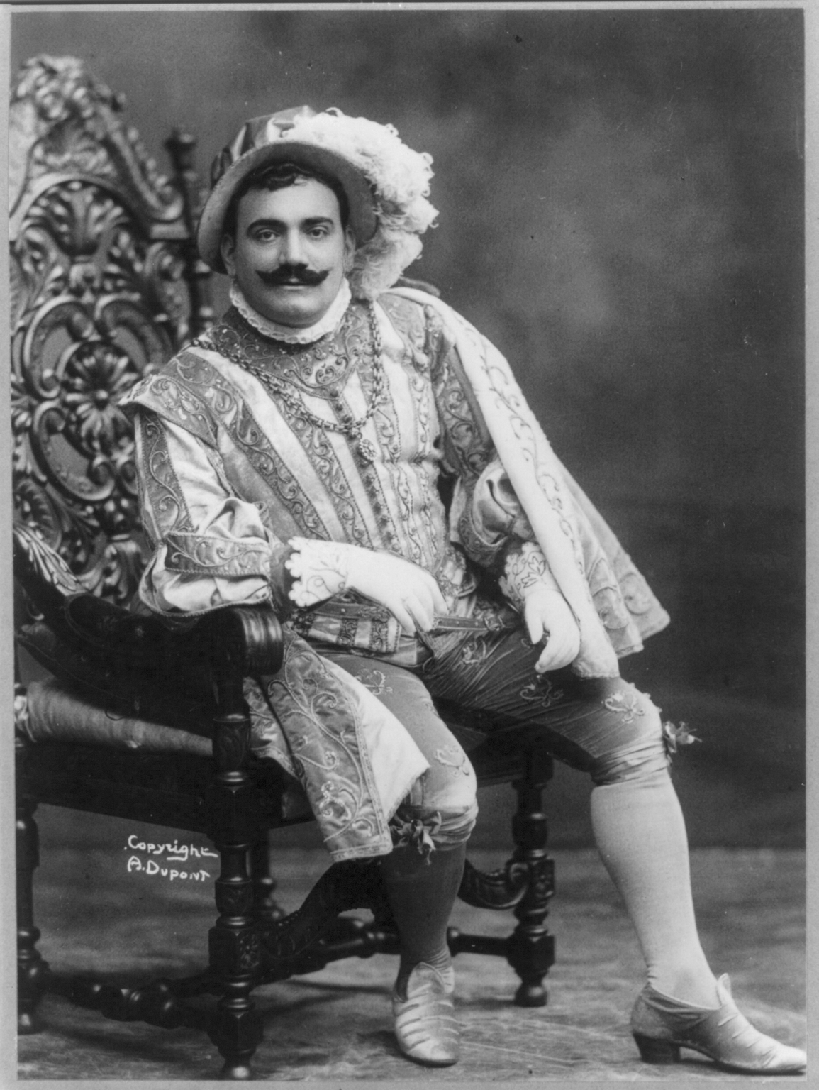 Enrico Caruso, 1873-1921, full-length portrait, seated, facing right, in costume